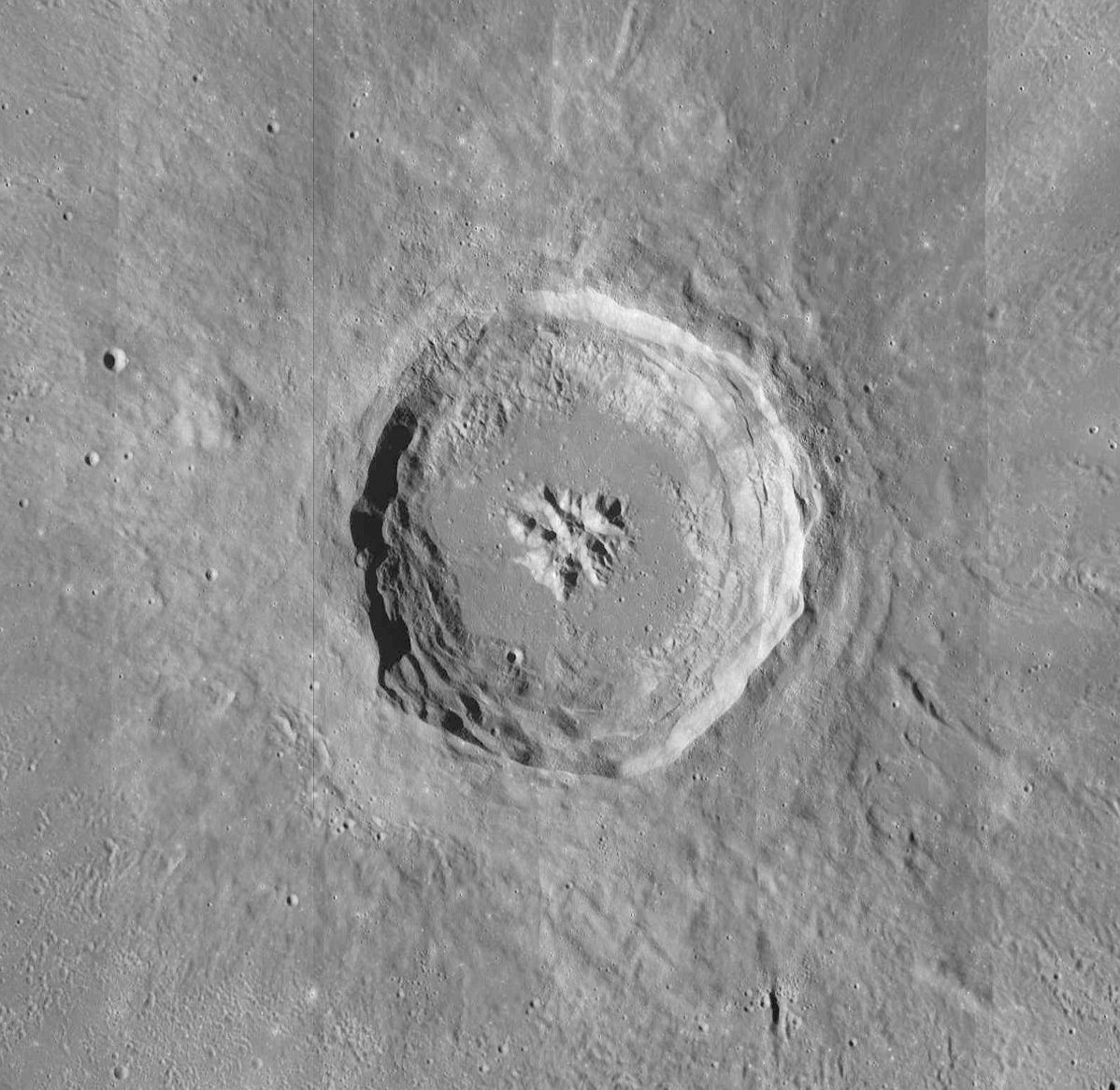 Crater Aristillus (detail of LRO - WAC global moon mosaic; Mercator projection)